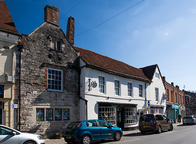 Wimborne - Priests' House Museum